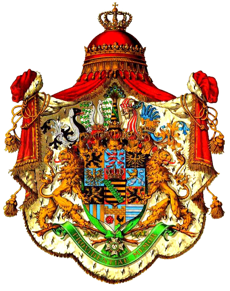 The great coat of arms of the Kingdom of Saxony (Albertine line of the House of Wettin)